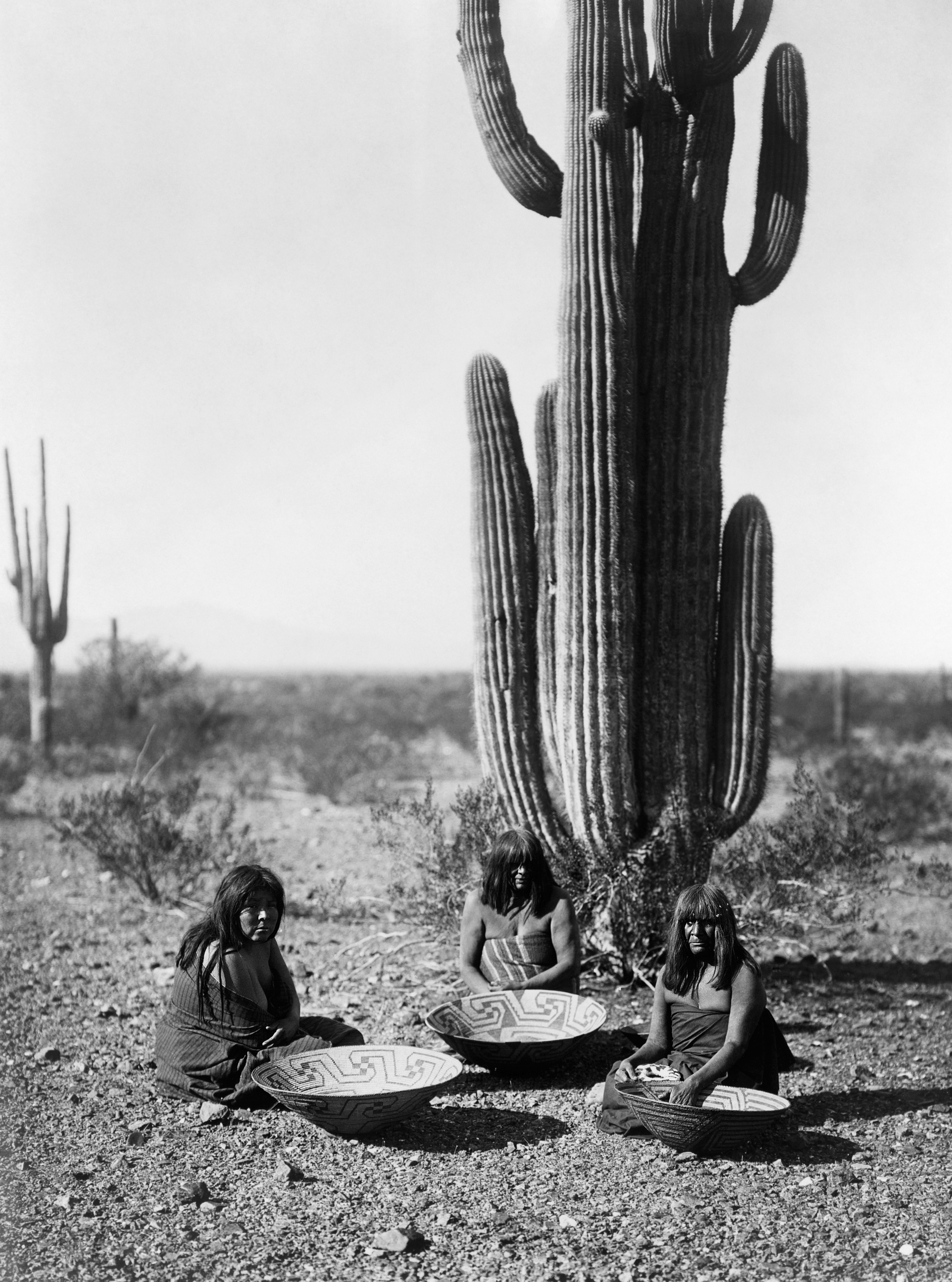 "Saguaro gatherers, Maricopa, Arizona" (1907). Three Maricopa women with baskets, seated in front of a Saguaro cacti in southern Arizona. From The North American Indian, by Edward S. Curtis.